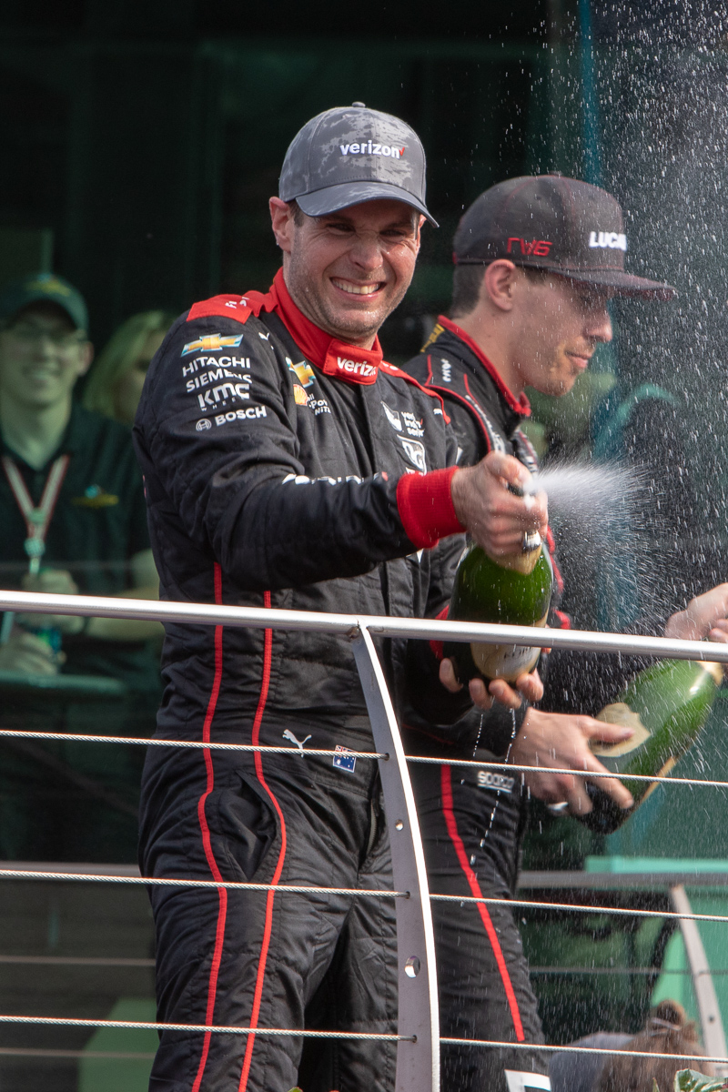 Penske driver Will Power celebrates his victory in the 2018 Grand Prix of Indy. Power would go on to win the 500 15 days later, becoming the first driver to win the Grand Prix and the Indy 500, in general and in the same year.